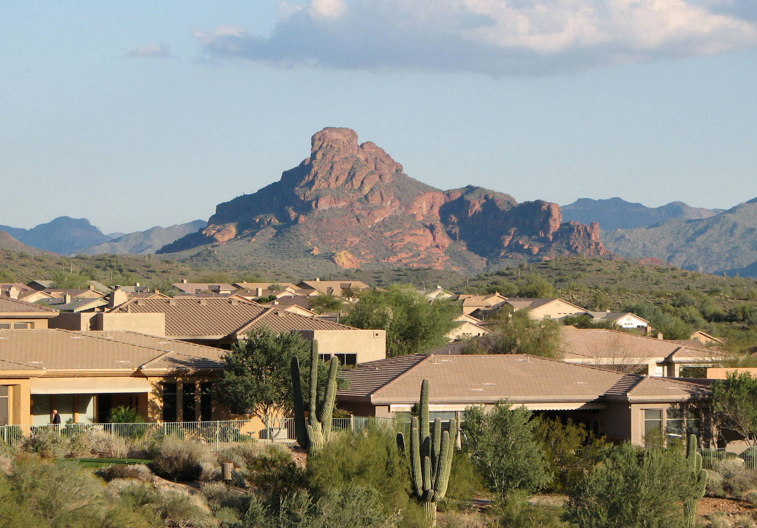 Fountain Hills, Arizona, USA